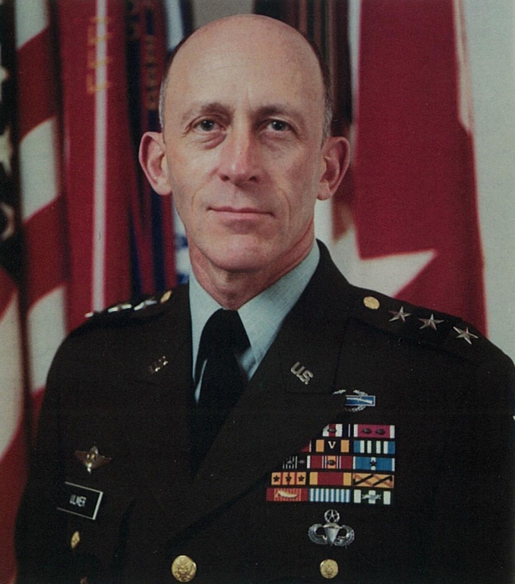 United States Army photo of Major General Walter F. Ulmer